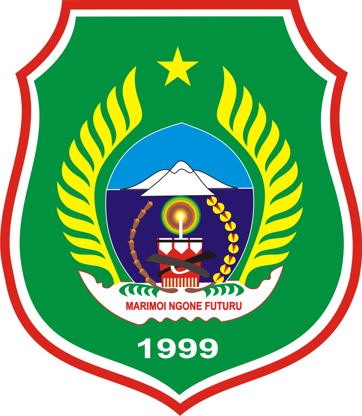 Coat of Arms of Indonesian province of North Maluku.